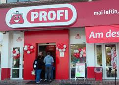 Proximity store PROFI in residential area of Lupeni, a mining locality in Central Romania.